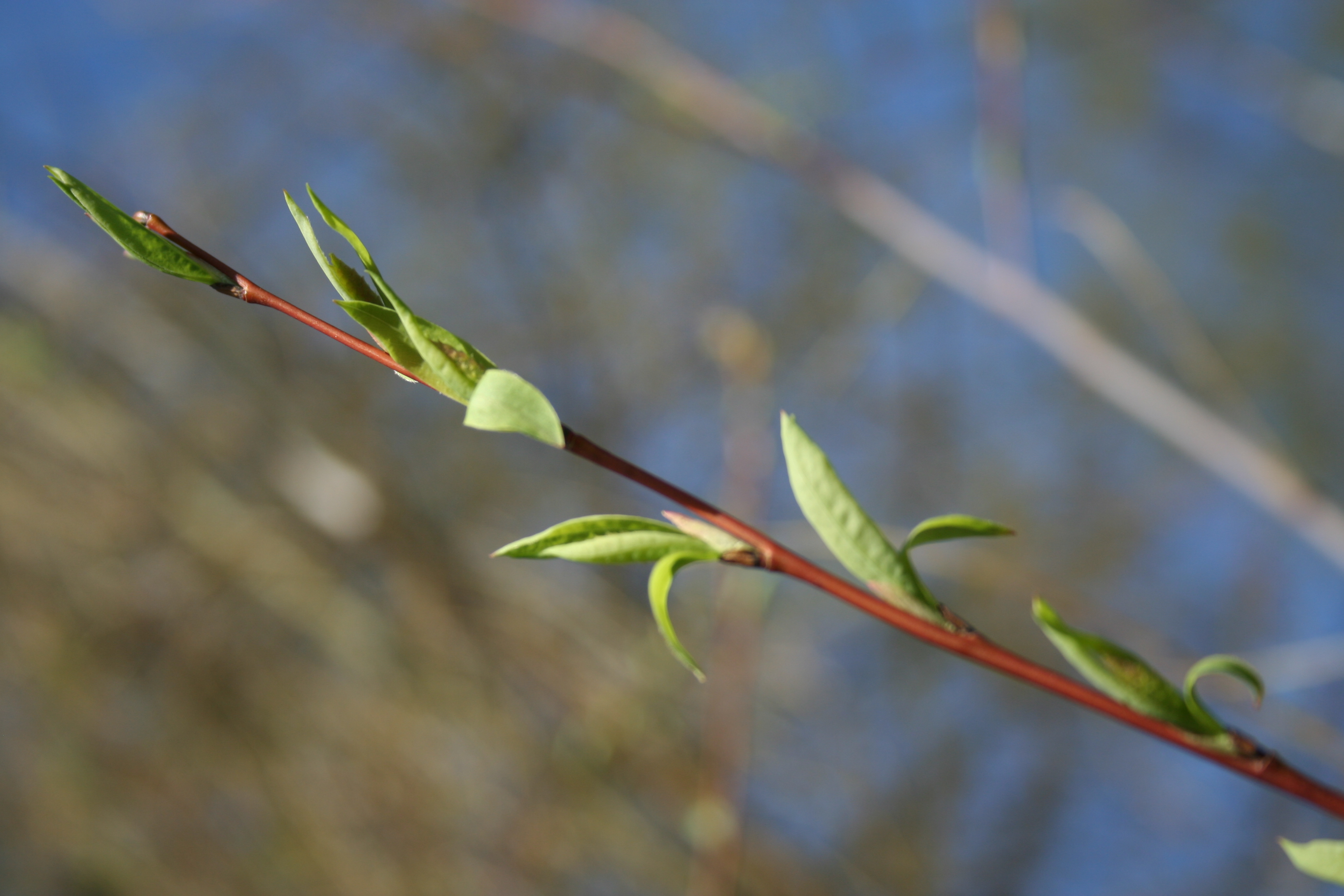 Branchlet of Chosenia arbutifolia in Oulu University Botanical Gardens, Finland.